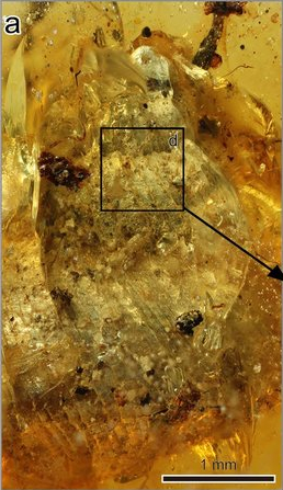 Lagocheilus cretaspira Asato from mid-Cretaceous Burmese amber. Holotype of L. cretaspira (NMNS PM 28272). (a) Abapertural view showing hair-like periostracum.